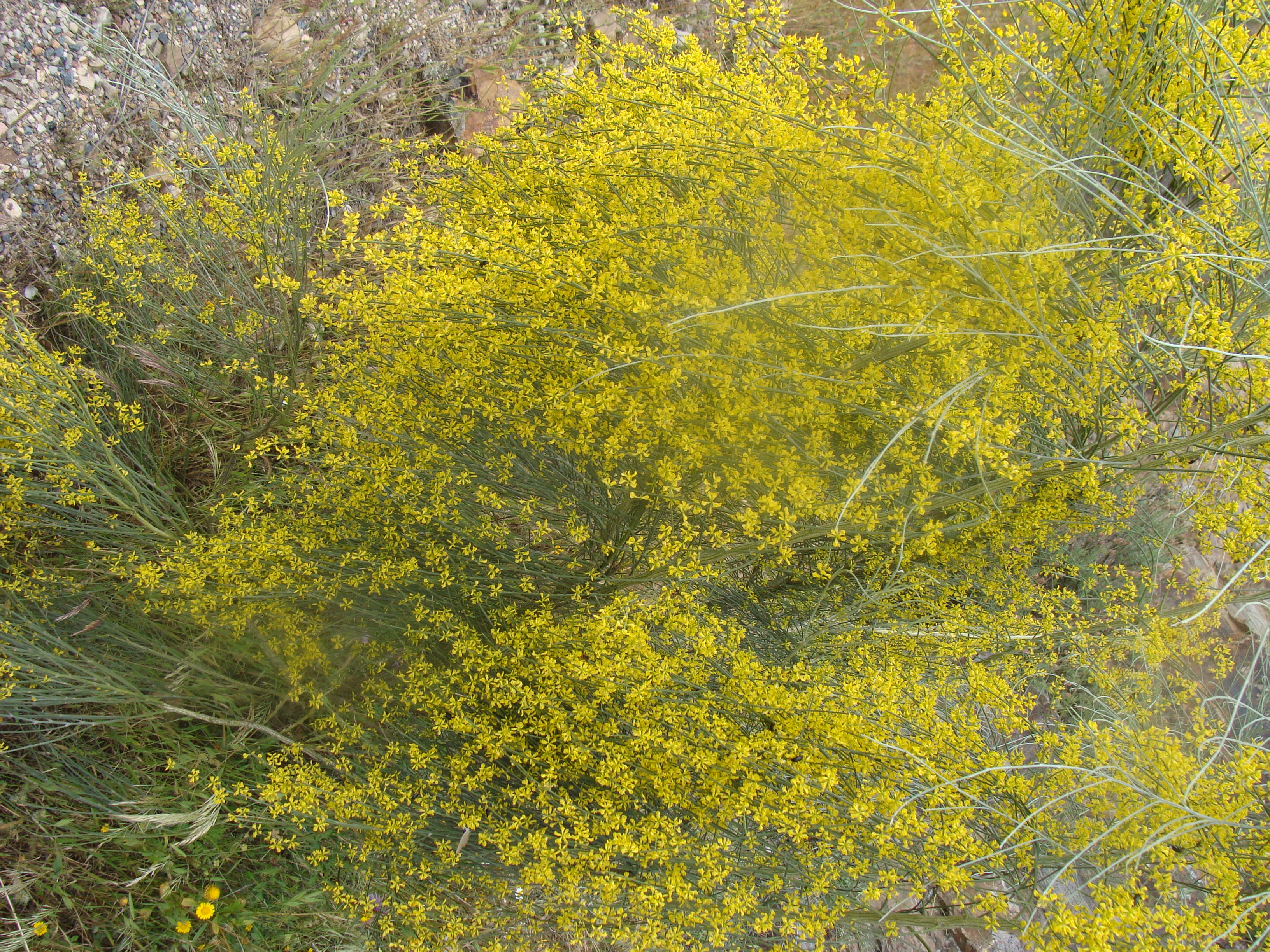 Retama sphaerocarpa, in the National Park of Monfragüe, Cáceres, Extremadura, Spain.